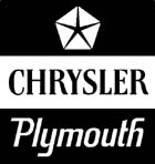 Logo of the former Chrysler-Plymouth division of Chrysler